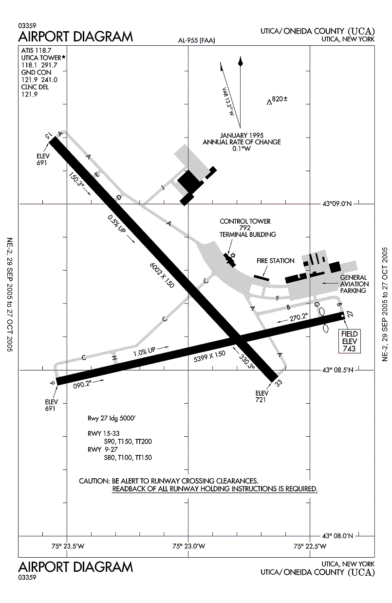 FAA airport diagram for Oneida County Airport (UCA) in Oneida County, New York, United States.